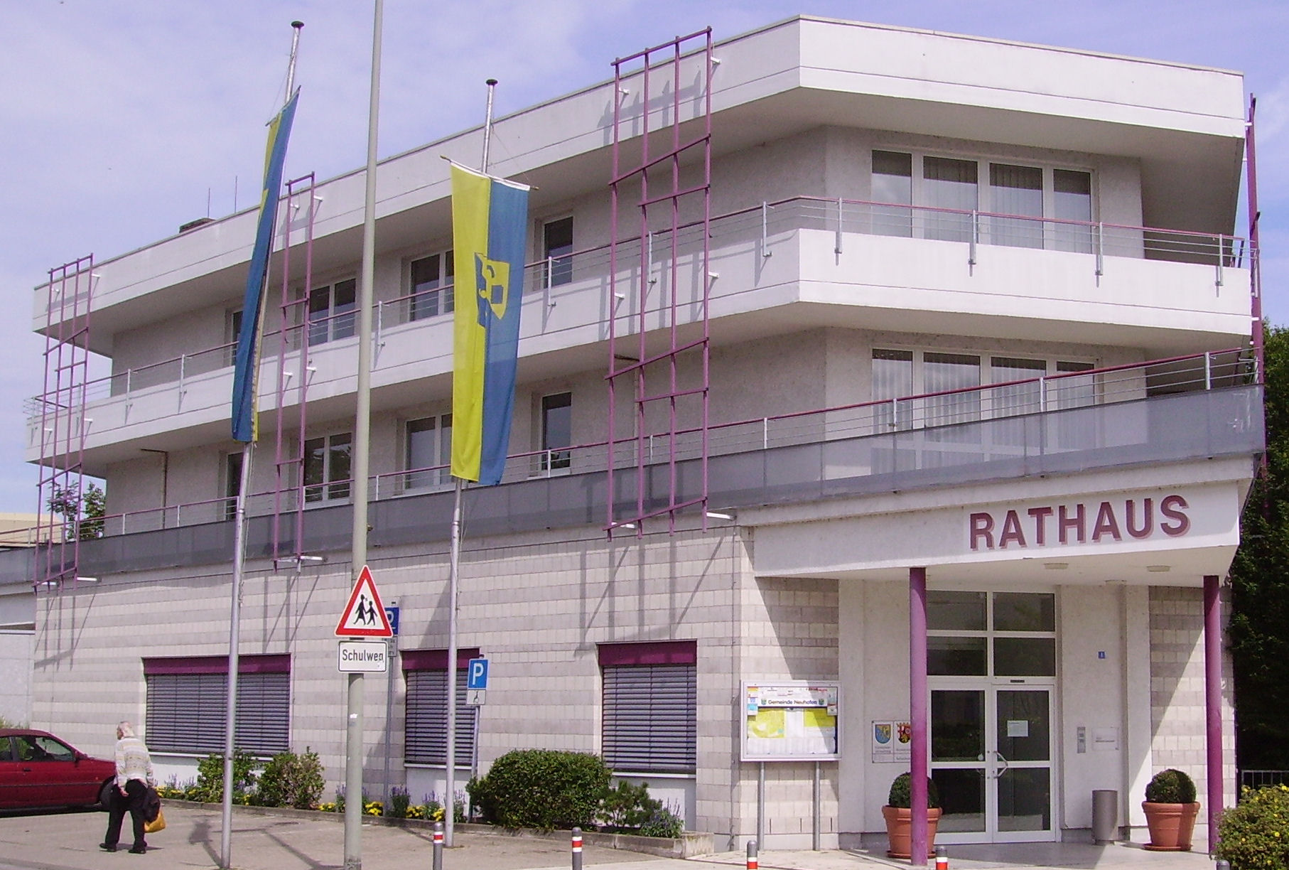 view of Neuhofen in the Palatinate, Germany